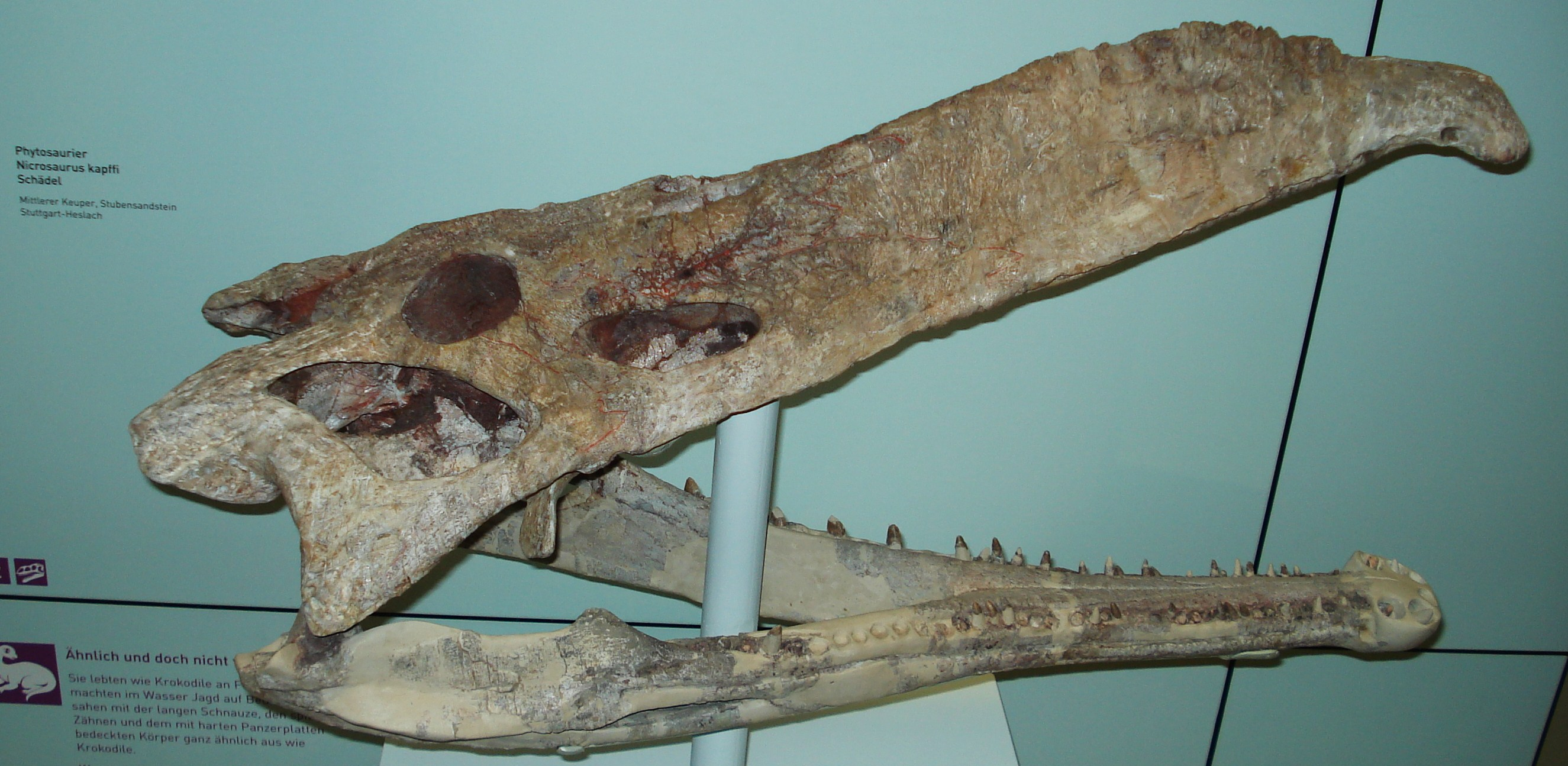 fossil of nicrosaurus